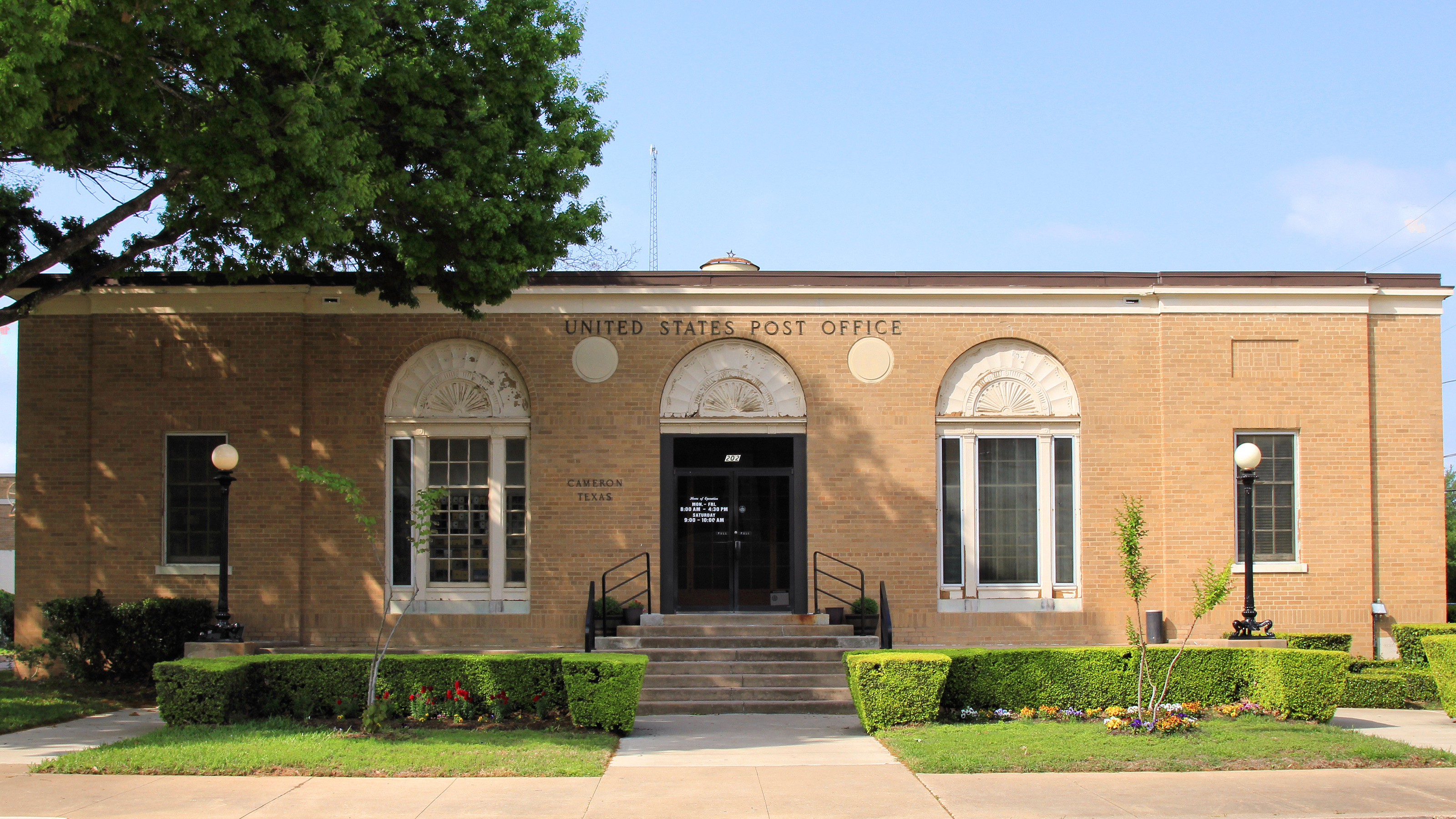 The post office in Cameron, Texas, United States was built in 1917.